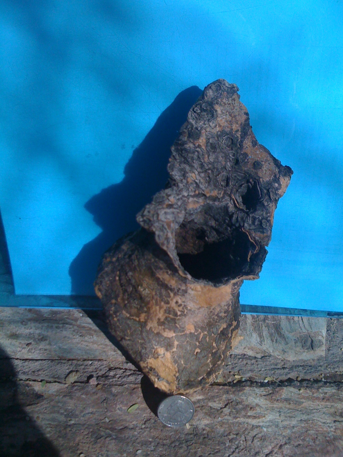 Saguaro boot, with US quarter to show scale, photographed at Desert Botanical Garden, Phoenix, AZ